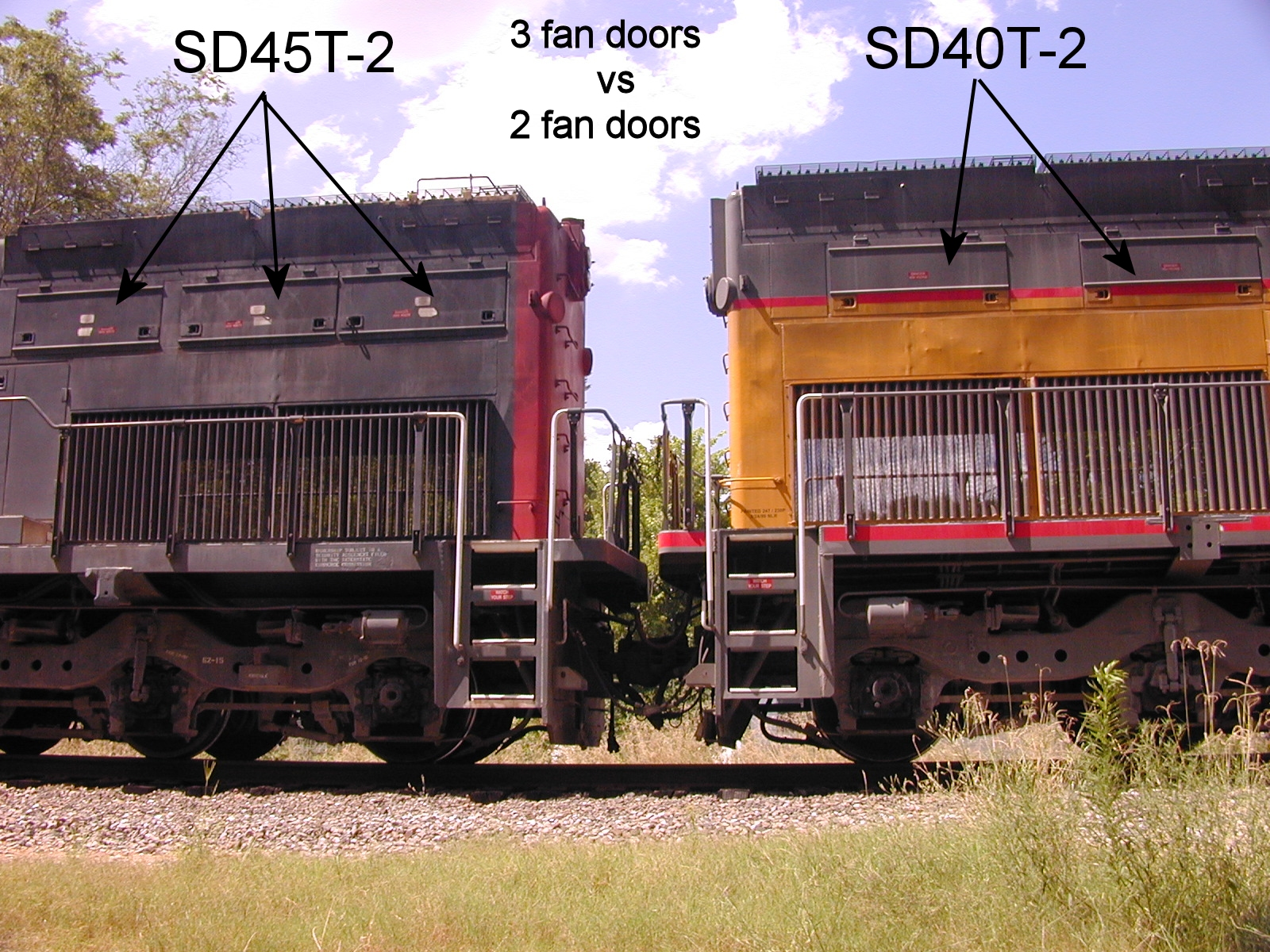 Photograph and edits detailing spotting differences between EMD SD45T-2 and SD40T-2